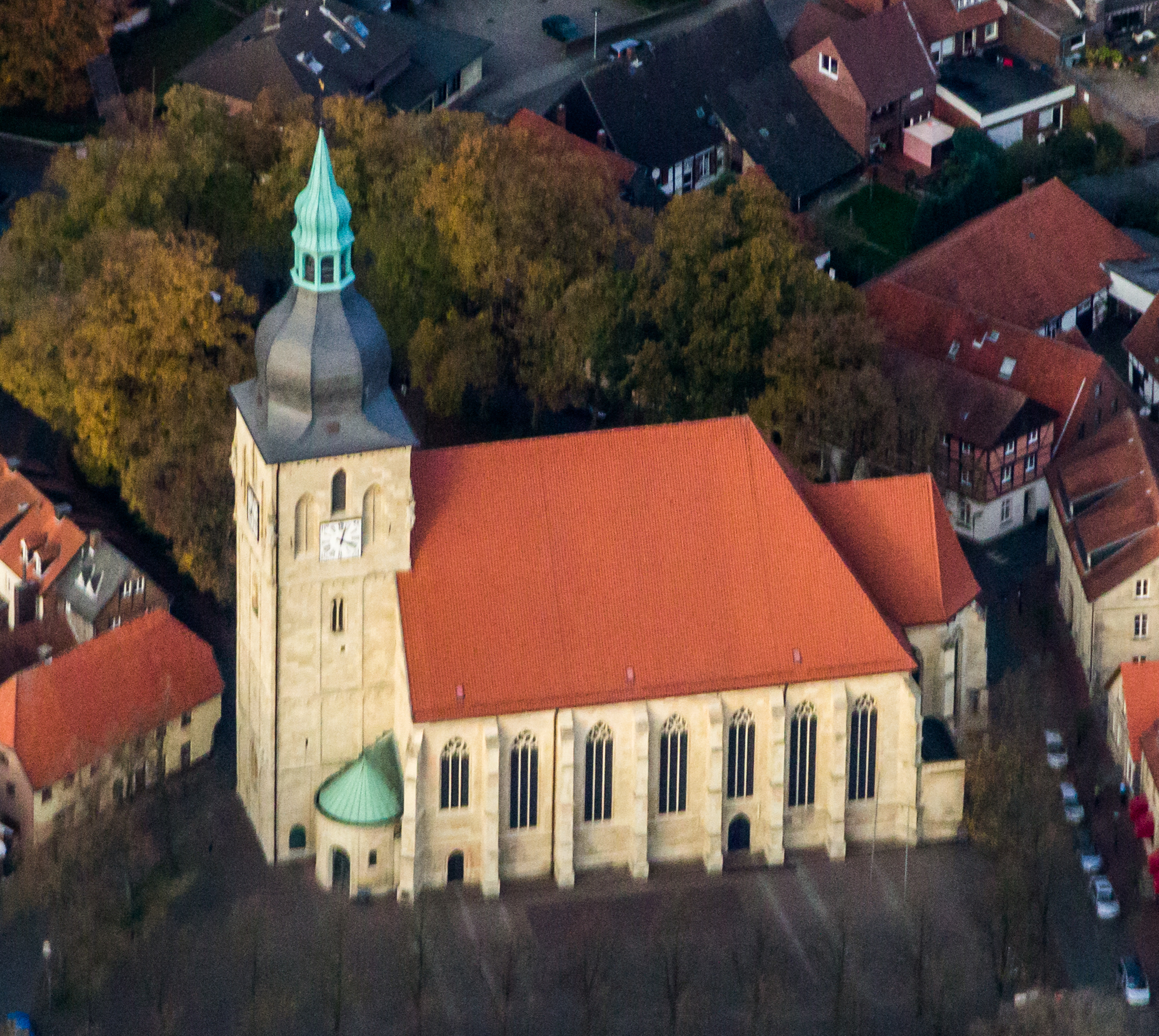 St. Martinus Church, Nottuln, North Rhine-Westphalia, Germany